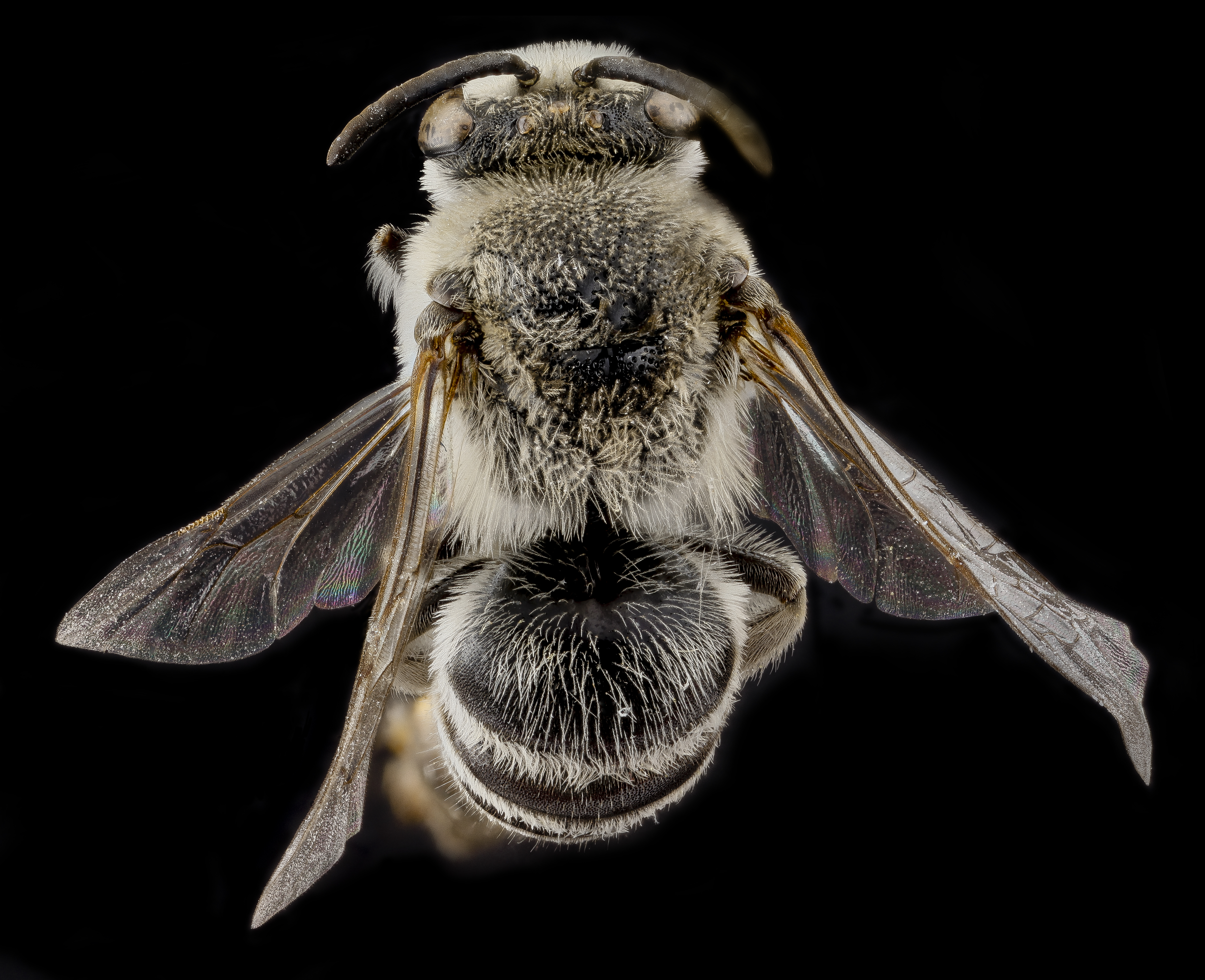 Badlands National Park